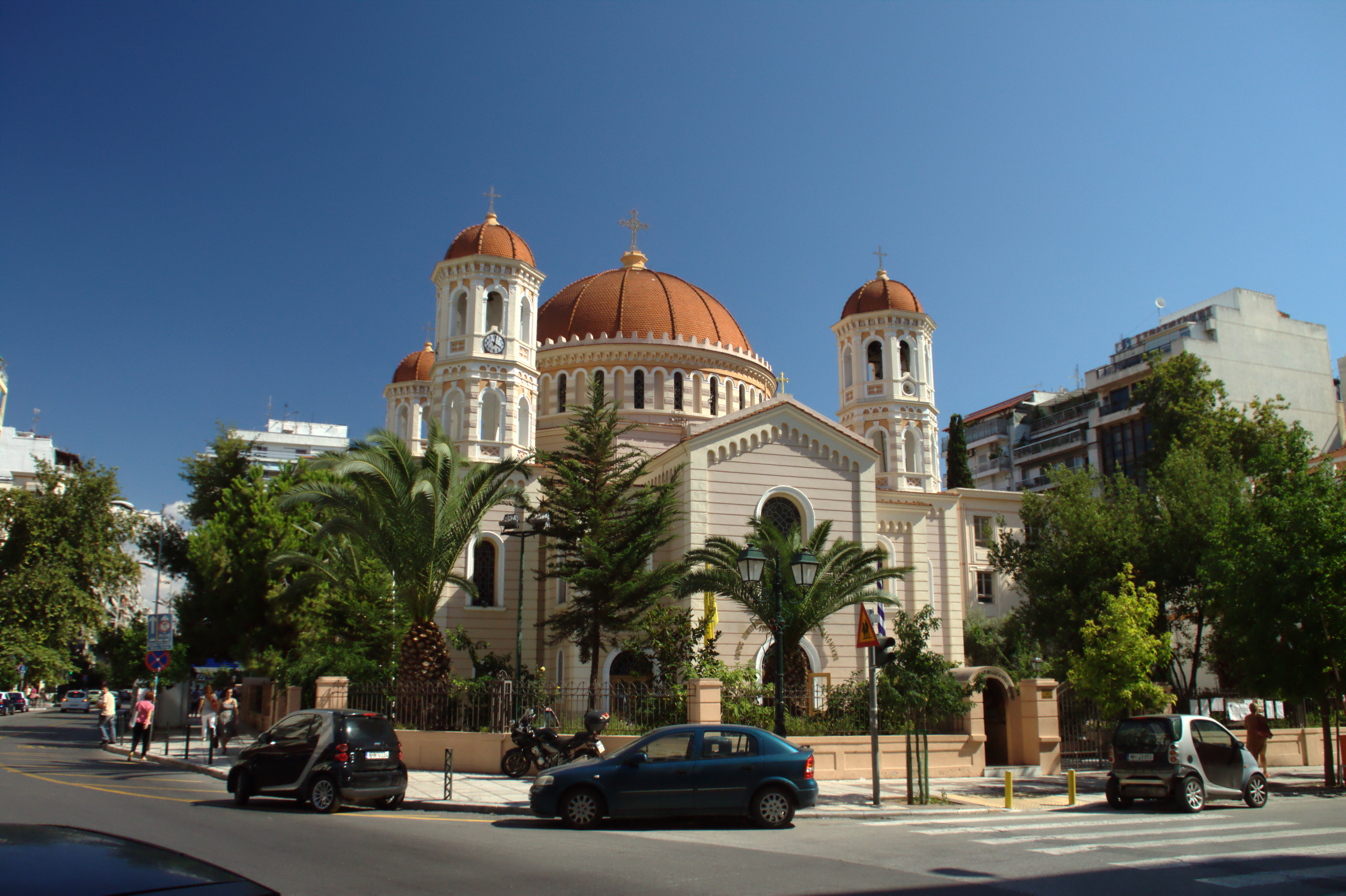 An orthodox temple near the Museum of Macedonian Struggel in Thessaloniki, Greece